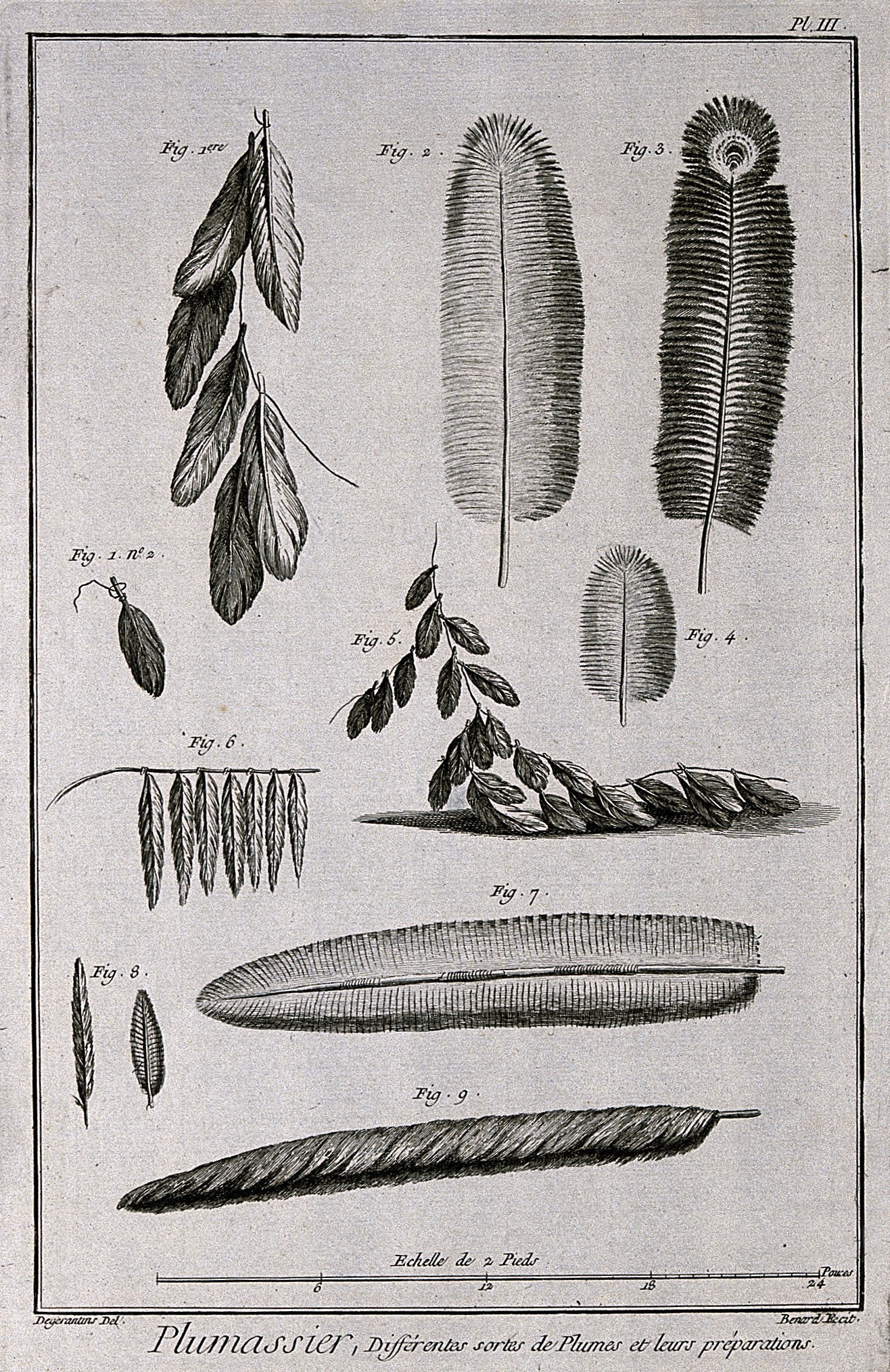 A variety of plumes. Engraving by R. Bénard after Degerantins. Iconographic Collections Keywords: Degerantins; Robert Bénard